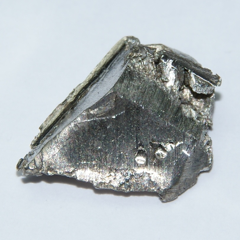 Ytterbium forms a protective oxide layer in air, which makes it quite resistant. It is not particularly rare for a lanthanoid, but difficult to separate from the others, so it is not used much. Its main application is as additive in special steels and for special permanent magnets. Ytterbium is about 25 - 30 % lighter (less dense) than its neighbors thulium and lutetium.